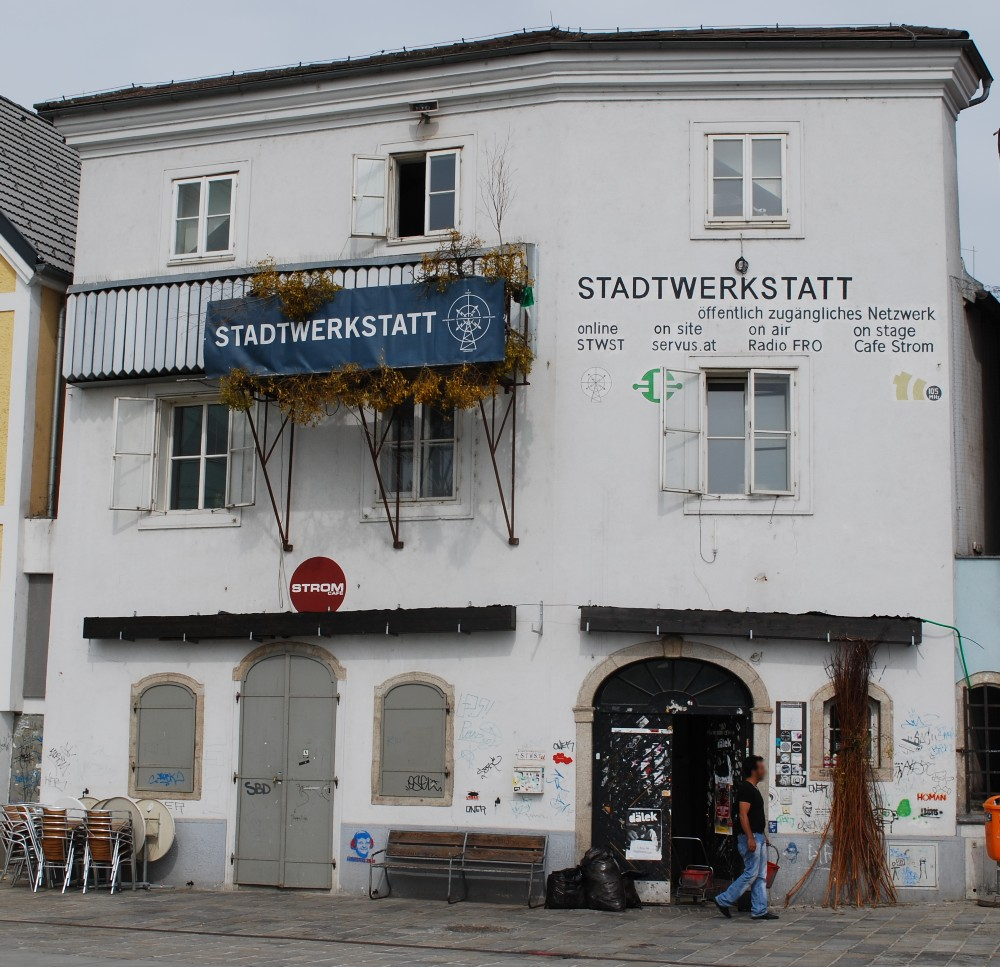 Stadtwerkstatt Linz in Urfahr, Linz, Upper Austria